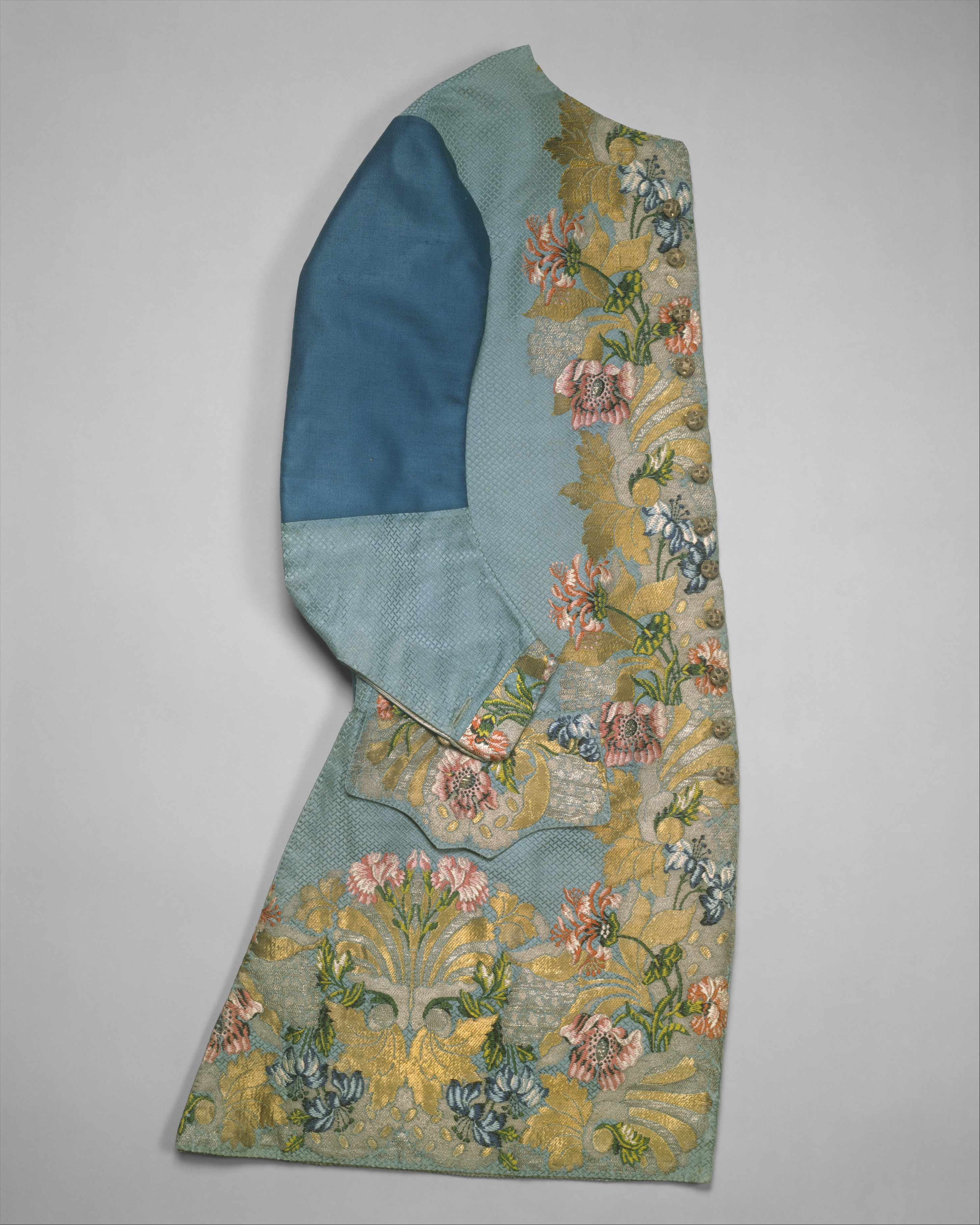 British; Waistcoat